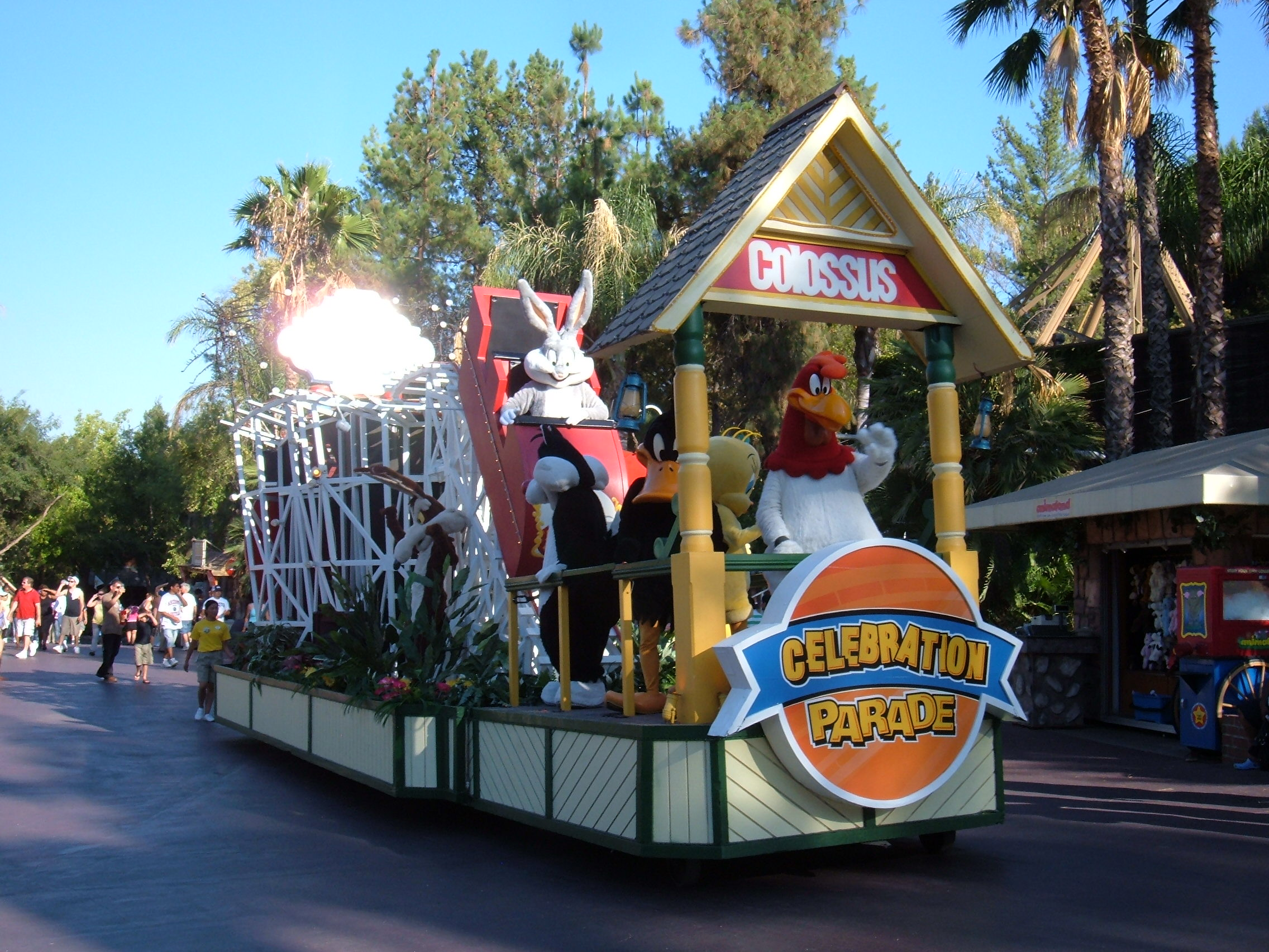 The Celebration Parade at Six Flags Magic Mountain in Ventura, California.